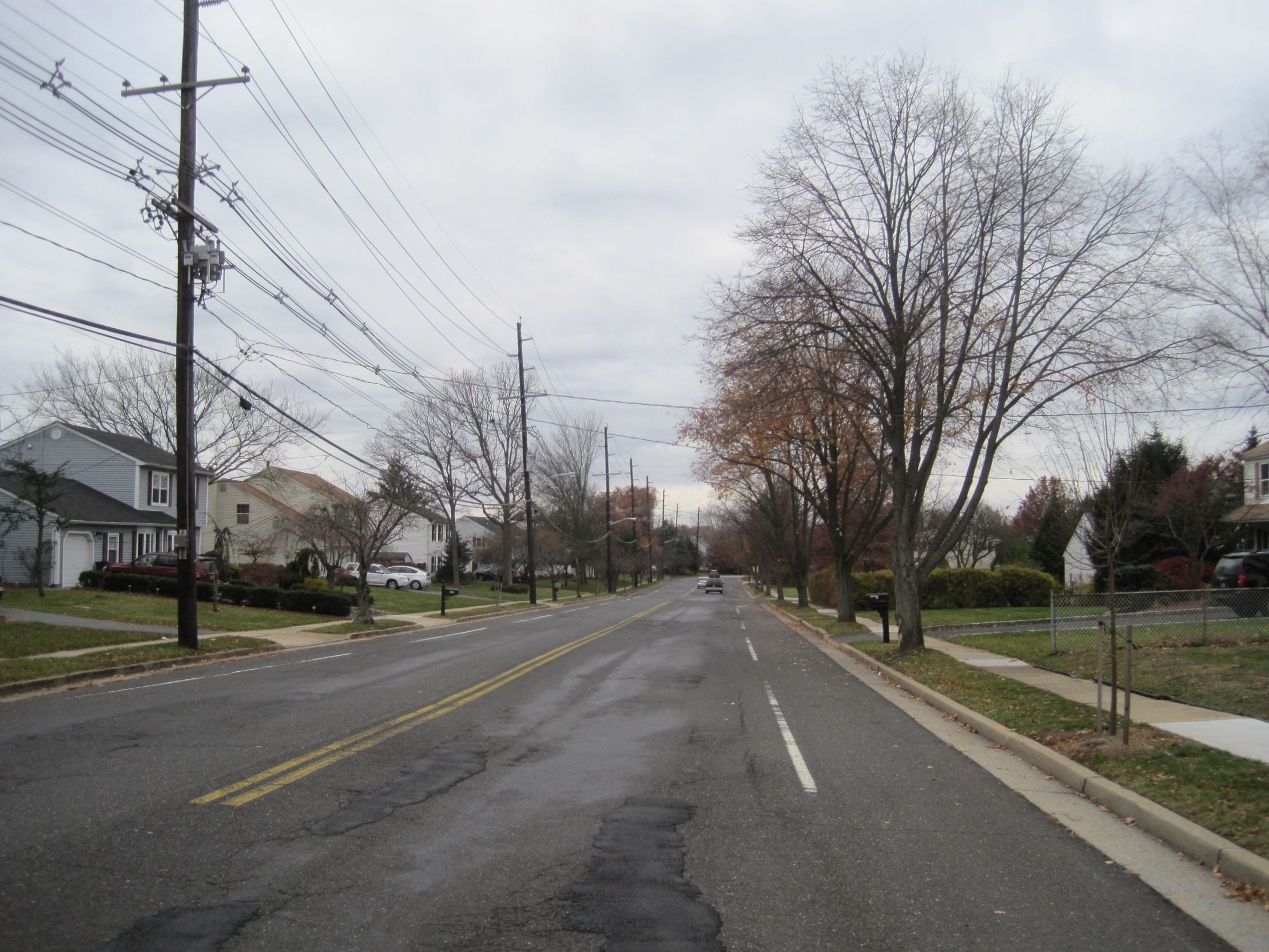 Photograph showing Society Hill, New Jersey, a census-designated place within Piscataway, Middlesex County. Photo taken looking west along Morris Avenue at Yorktowne Drive.